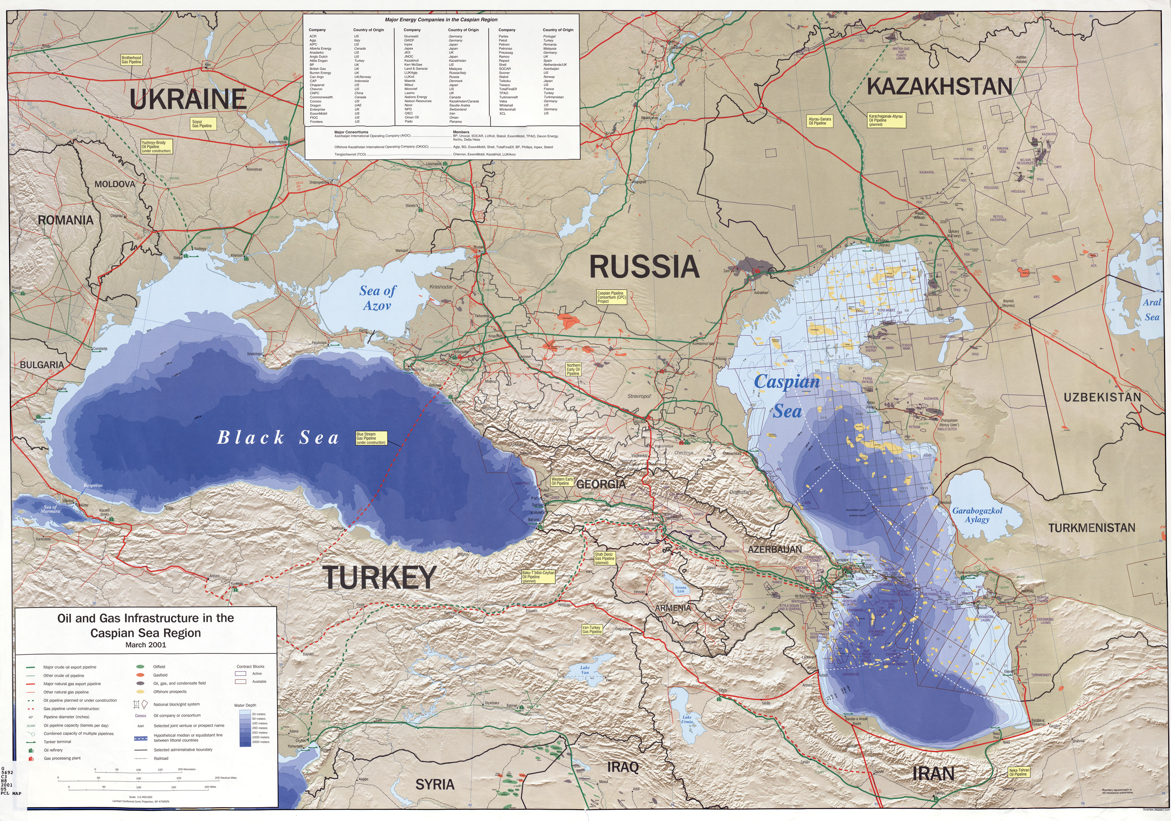 Map of Caspian sea area, oil and gas pipelines